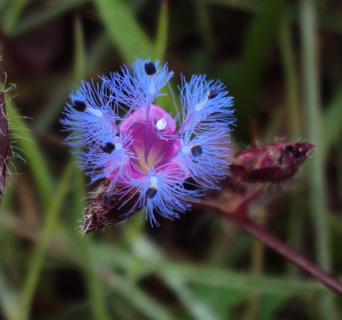 Cyanotis papilionacea